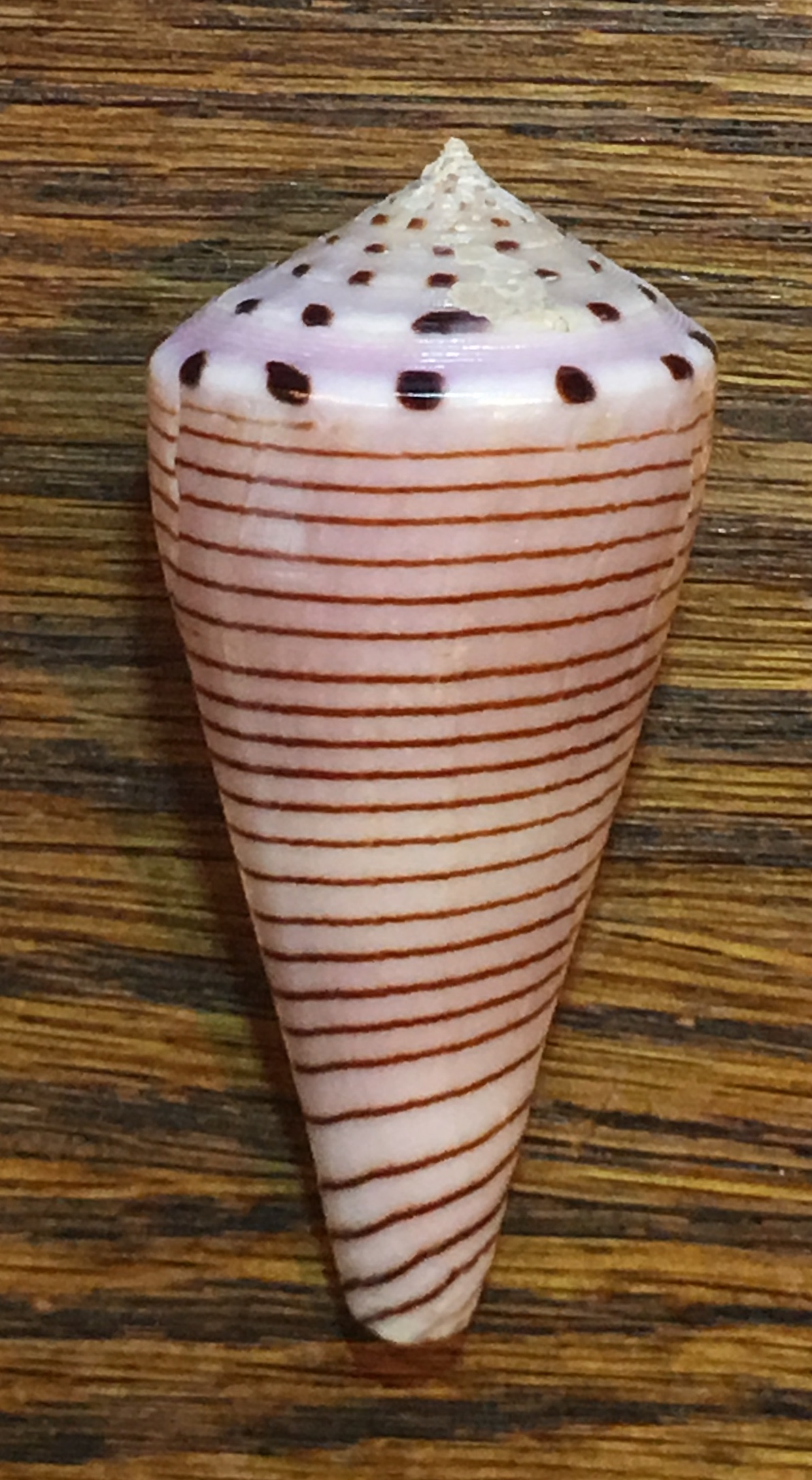 Dorsal view of Hirase's cone.